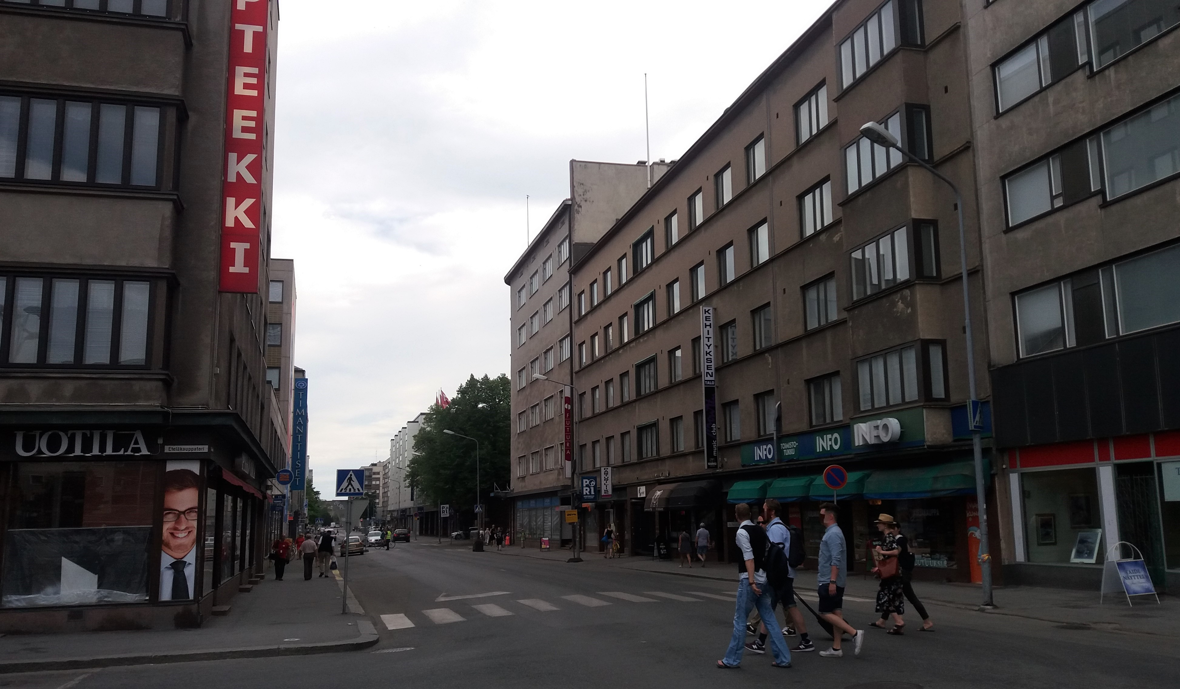 Antinkatu street, Pori, Finland.